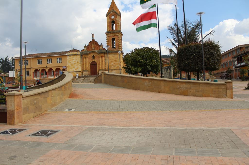 Tuta Municipality Park